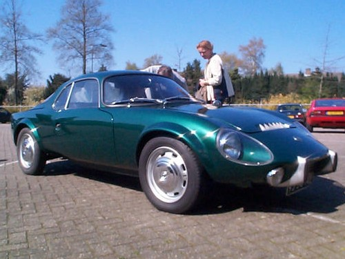 Matra Bonnet Djet V, photographed at a Simca en Matra Sports Club meeting in 2002.